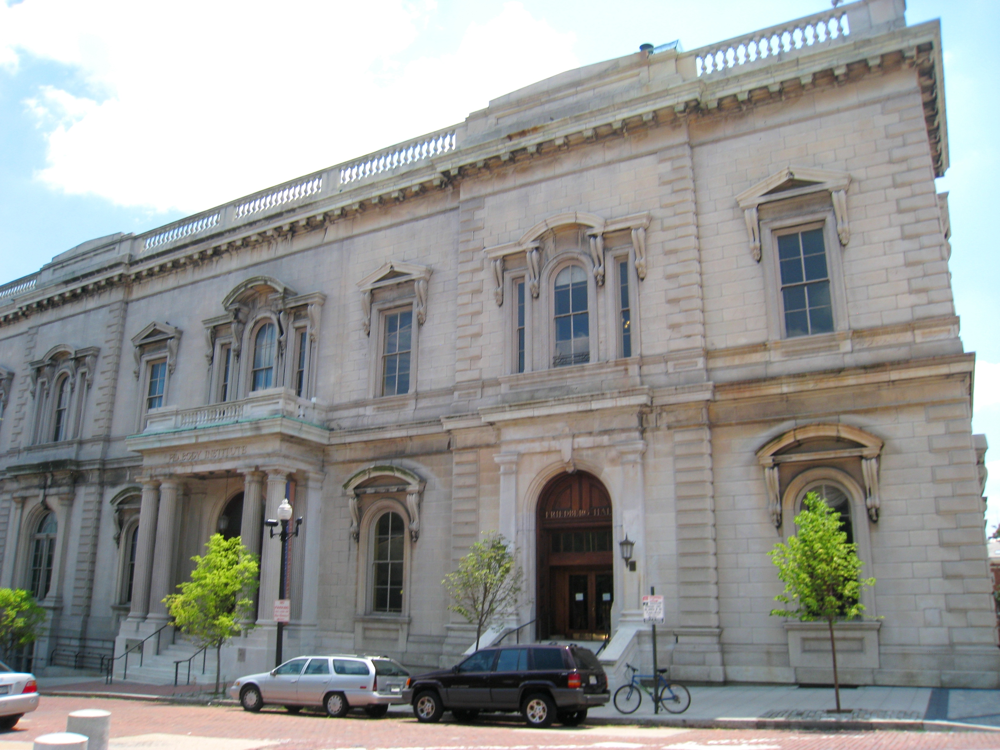 Peabody Institute, Mount Vernon Place, Baltimore, Maryland, USA.